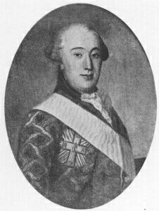 Christian Frederik Holstein (1735-1799), Danish count and courtier